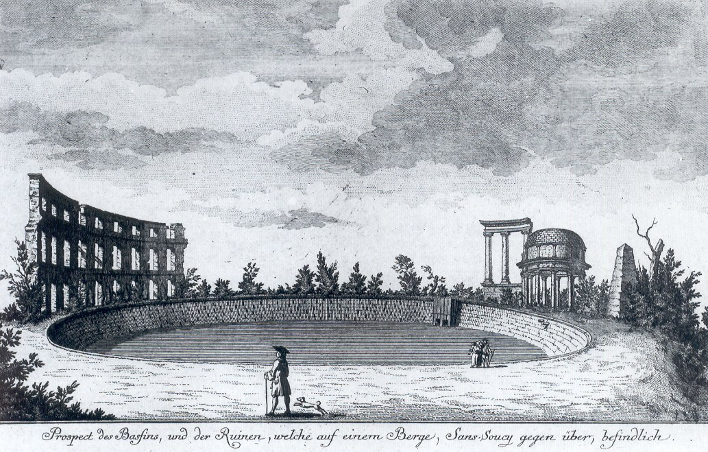 Mount of Ruins, Potsdam (etching)